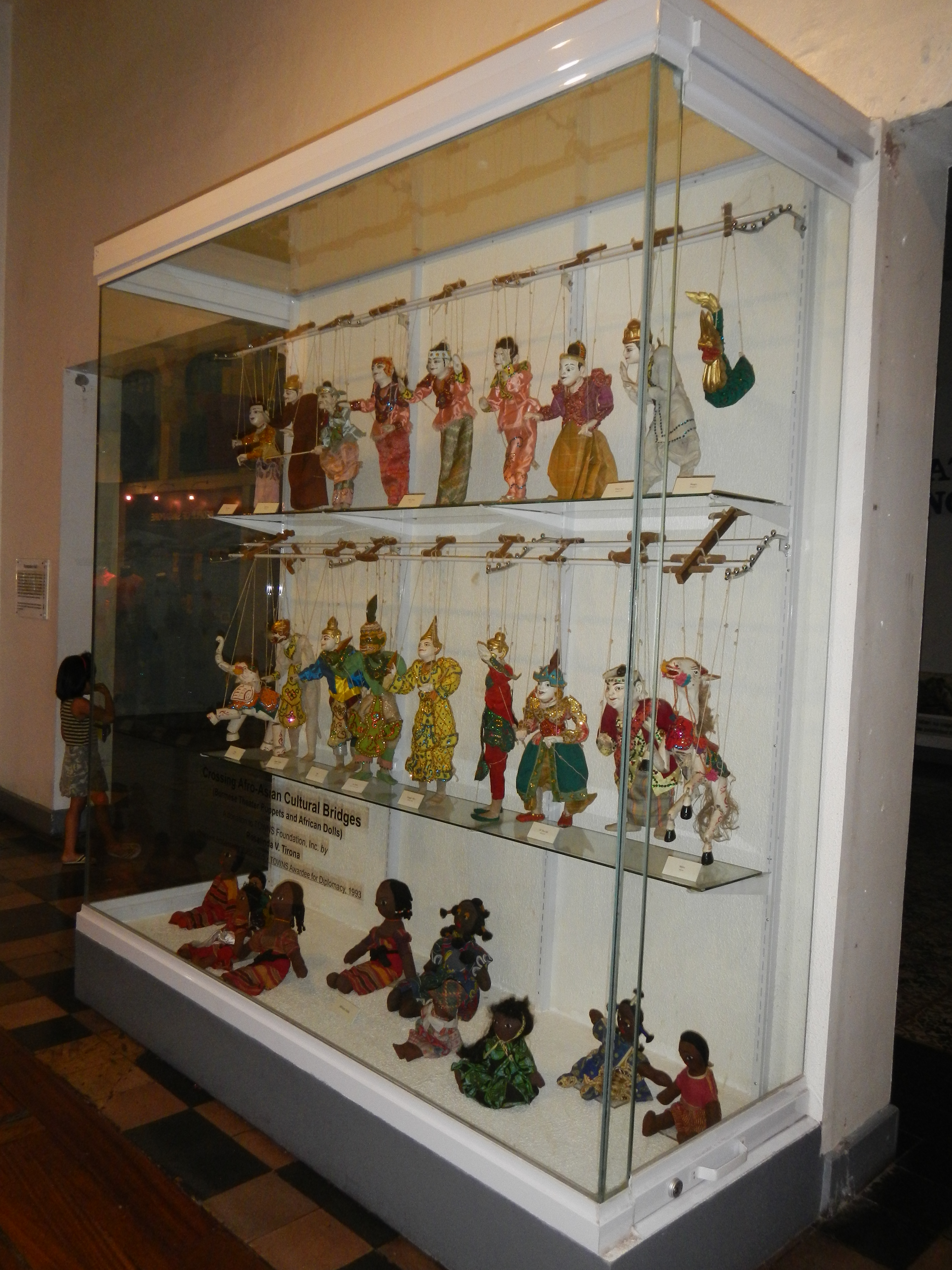 Marionettes display in the Museo Pambata (children's museum). Located in the Ermita district of Manila, the Philippines.